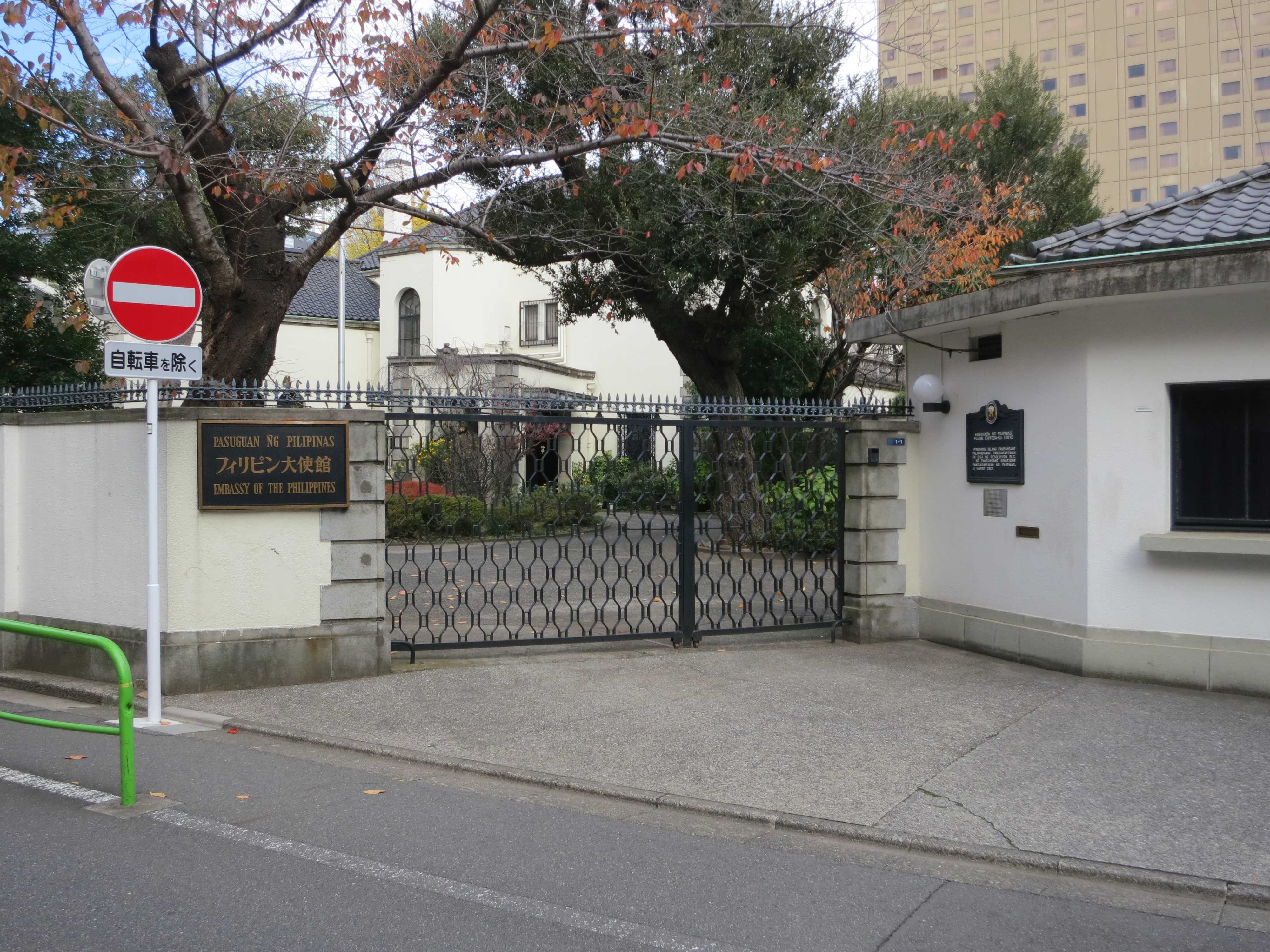 View of the main gate of The Kudan, which is the official residence of the Philippine ambassador to Japan.